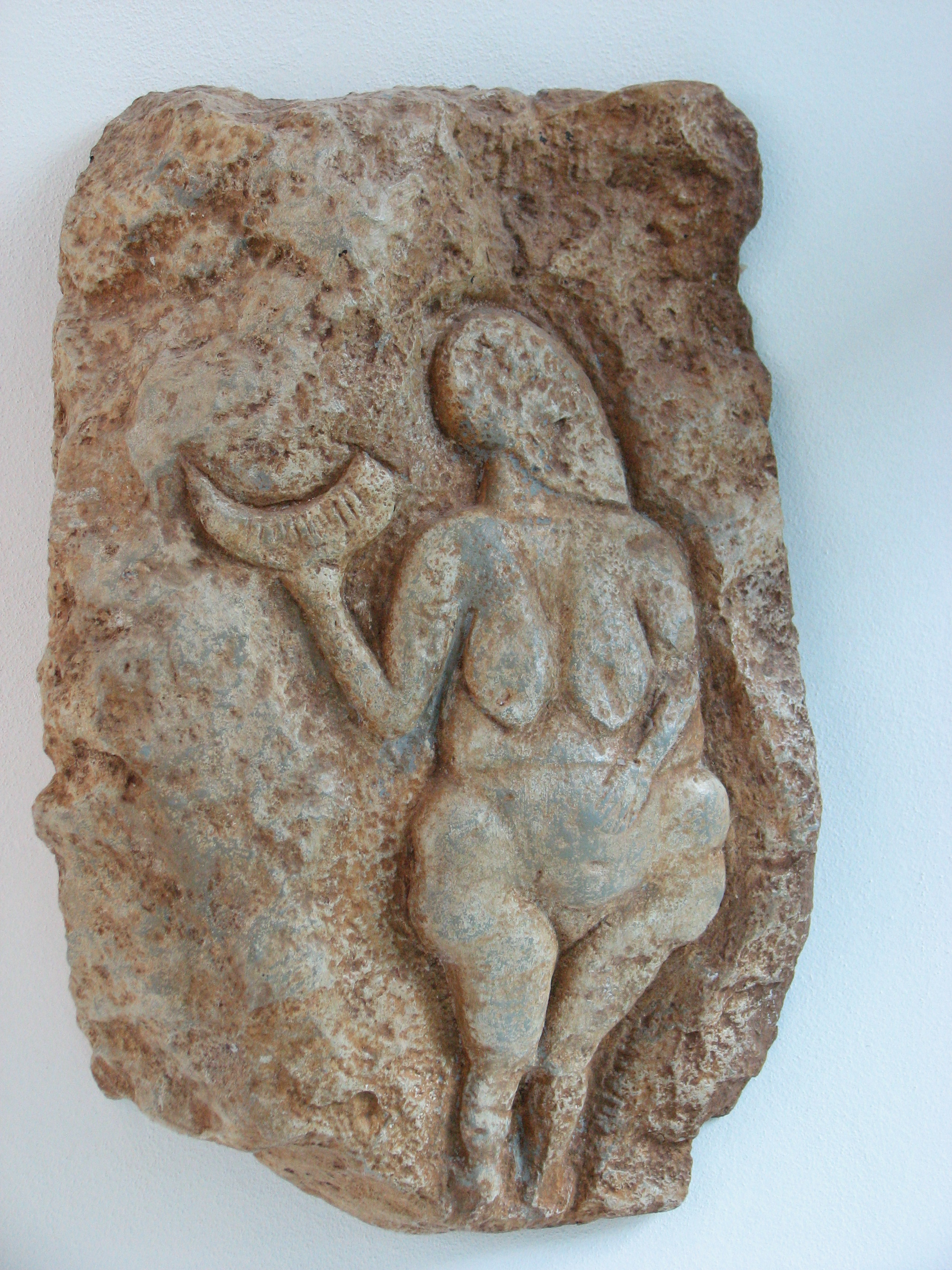 Venus figure from Lausel in southwestern France. Gravettien. The horn in her hand might represent the horn of plenty or the Moon phases. Replica in the Brno museum Anthropos.